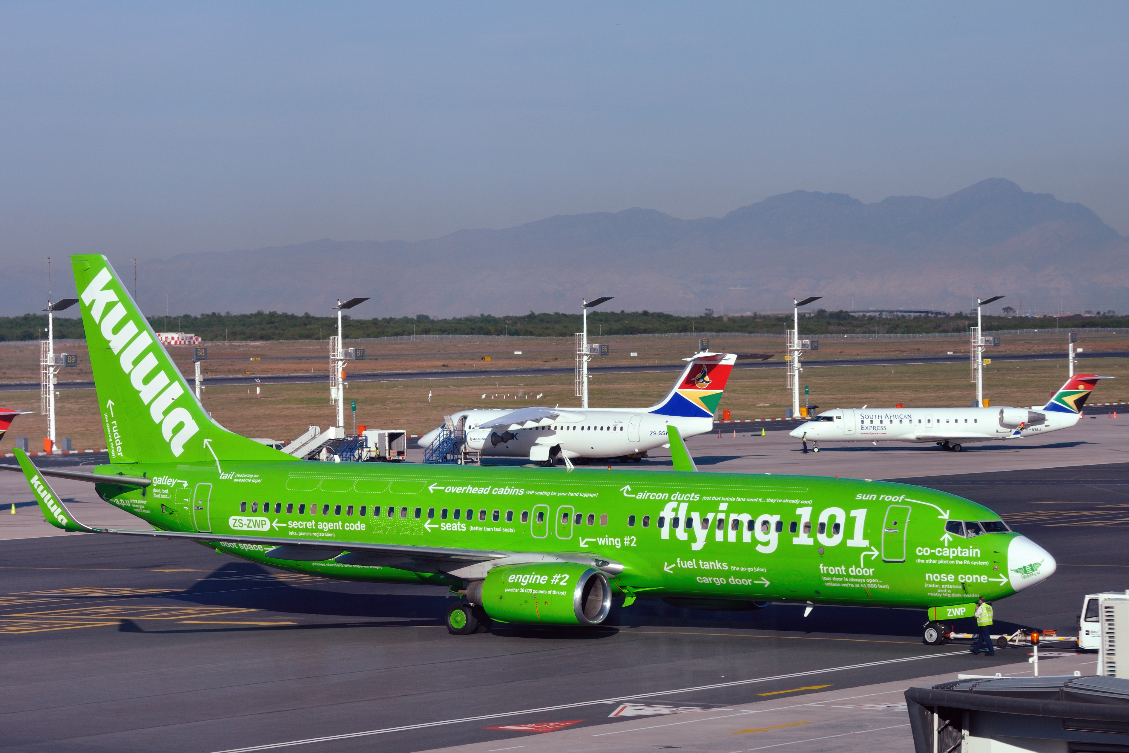 South Africa, spotting at Cape Town International